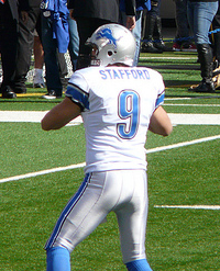 Detroit Lions Quarterback Matthew Stafford